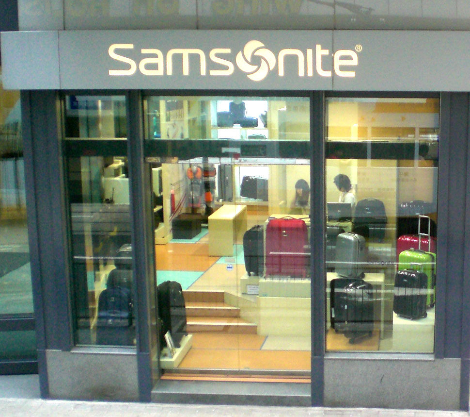 Description= Samsonite, Man Yee Building, Des Voeux Road Central, Hong Kong. Source= self-made Photo made by MandeD